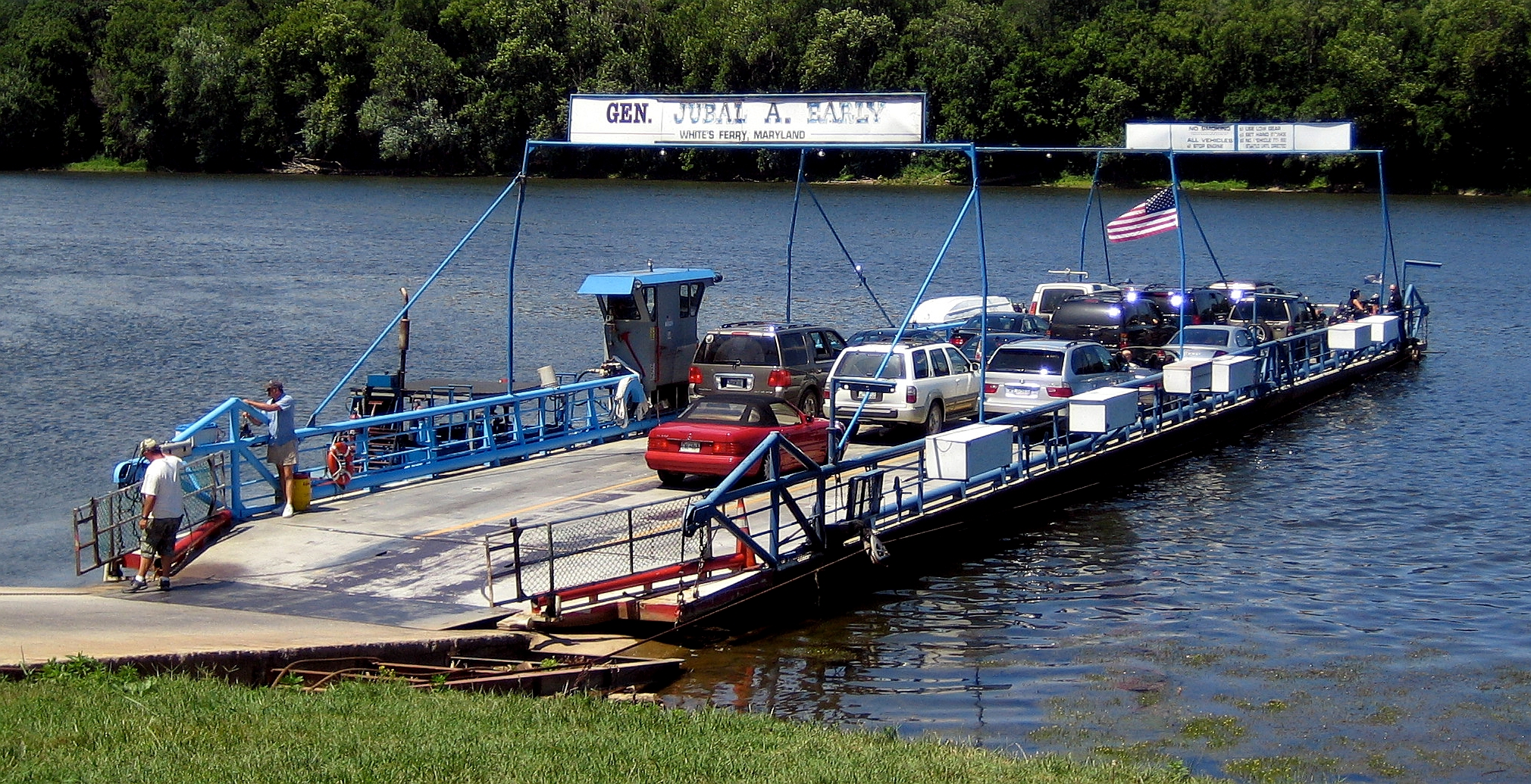 Gen. Jubal A. Early Ferry.